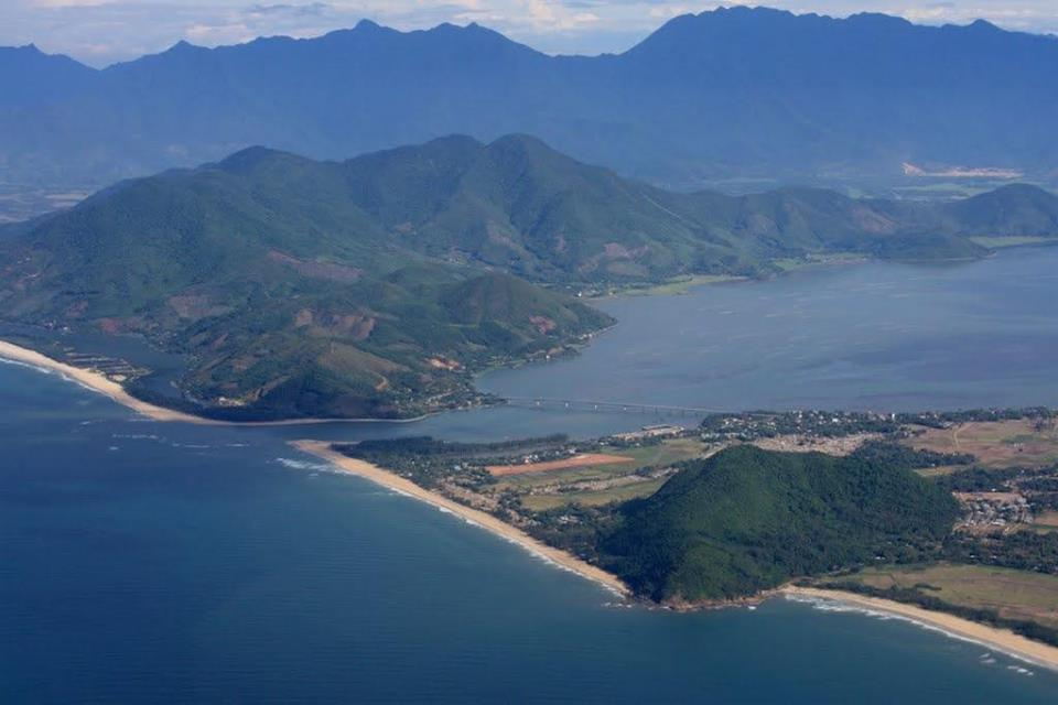 Vinh hien